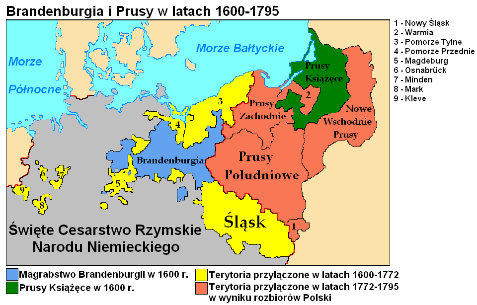 Brandenburg-Prussia 1600-1795